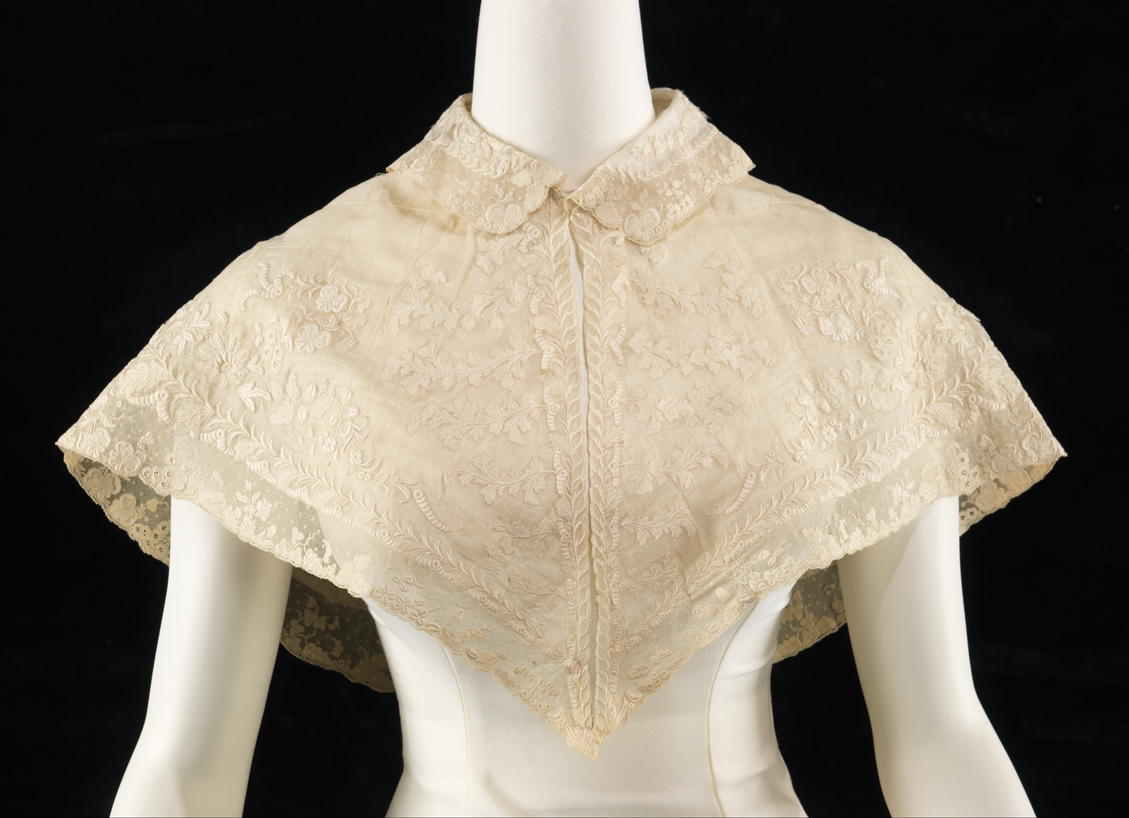 probably Swiss; Pelerine